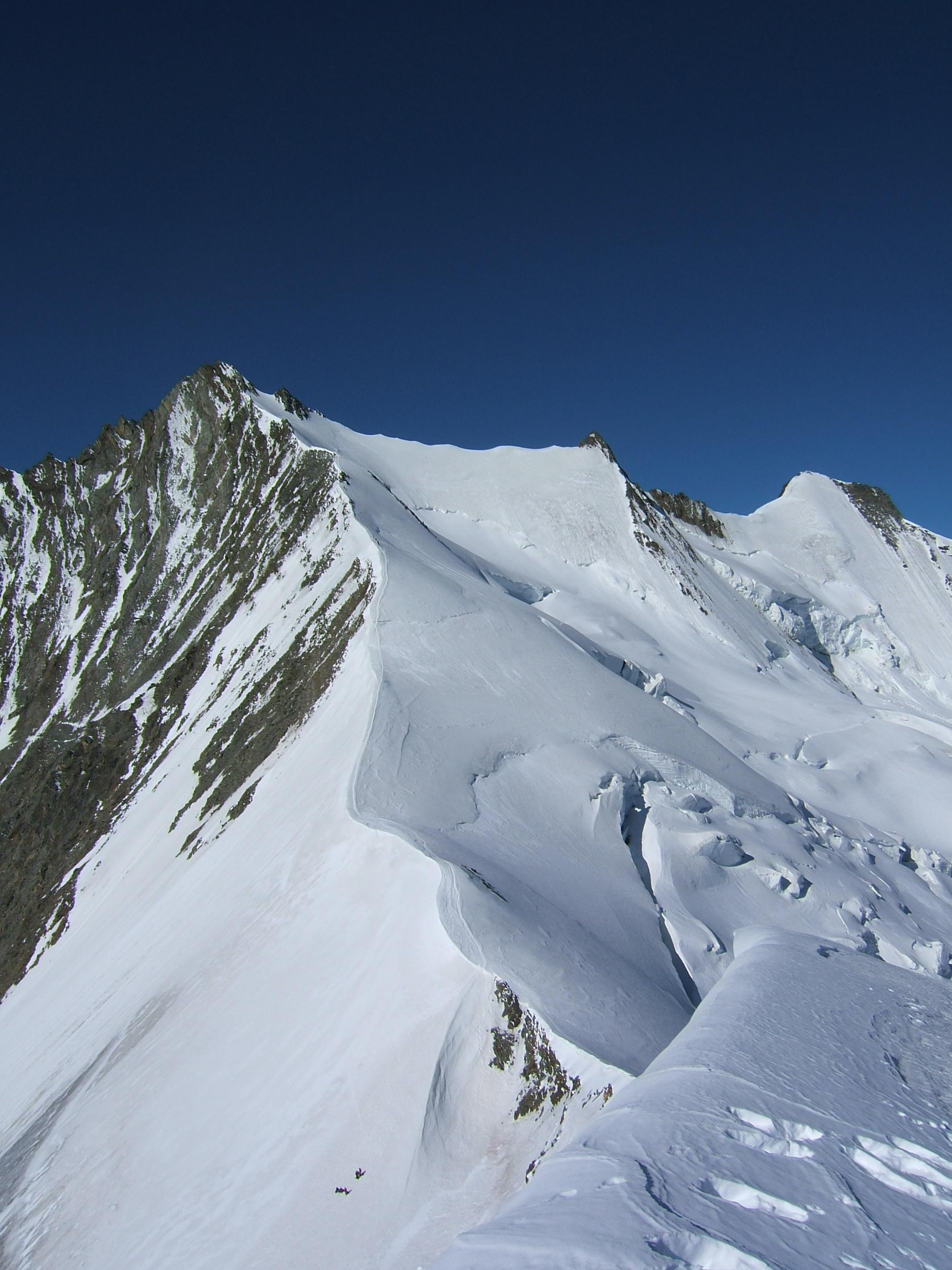 Nadelhorn from Northeast, from Ulrichshorn, right of it Nadelgrat with Stecknadelhorn and Hohberghorn